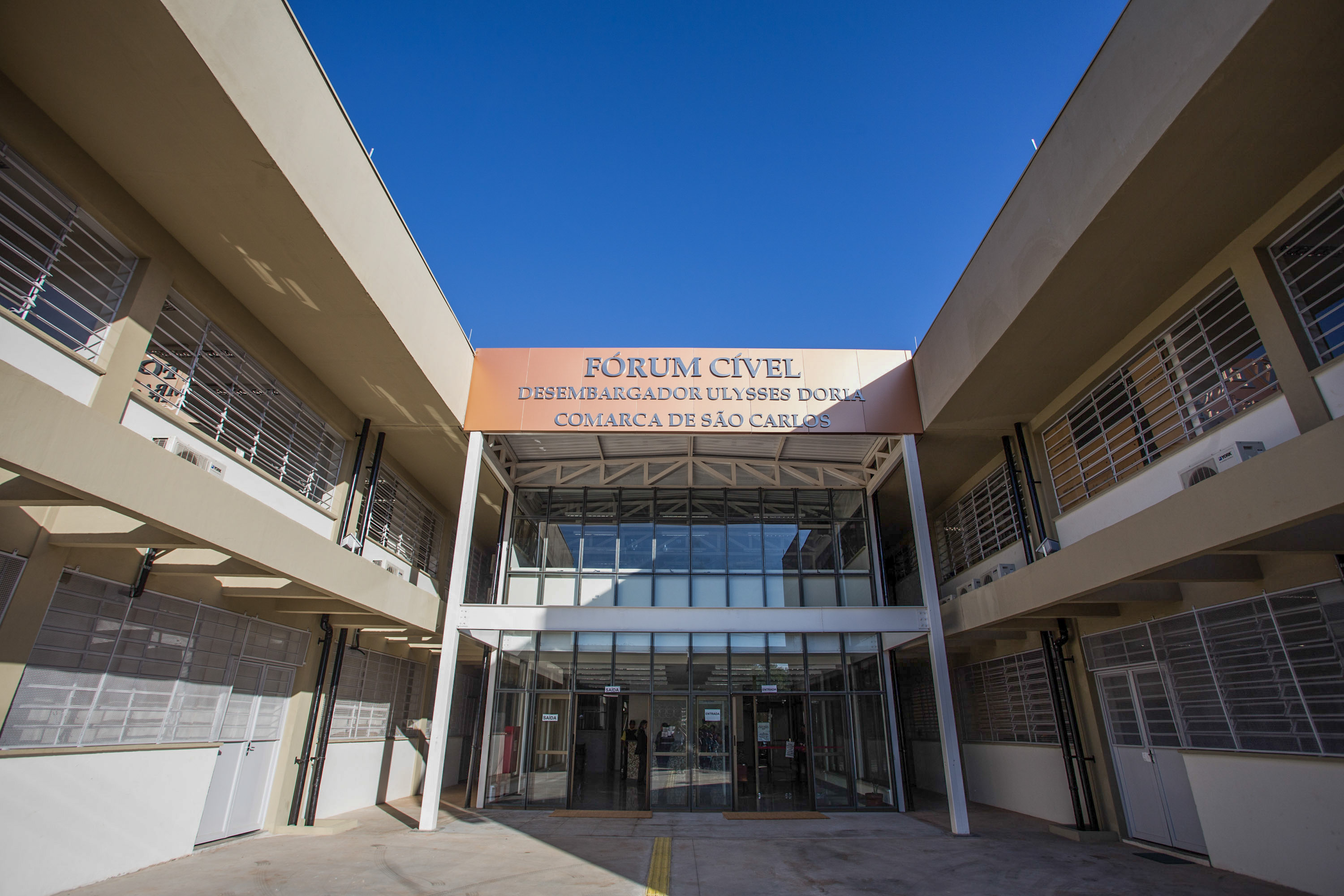 O Governador Geraldo Alckmin participou de cerimonia para entrega da reforma e ampliação do Fórum. No prédio ocorreu a reforma das antigas instalações e ampliação do prédio, aumentando a capacidade de atendimento a população São Carlense.Data: 25/06/2014. Local: São Carlos/SP.Foto: Vagner Campos/A2 FOTOGRAFIA